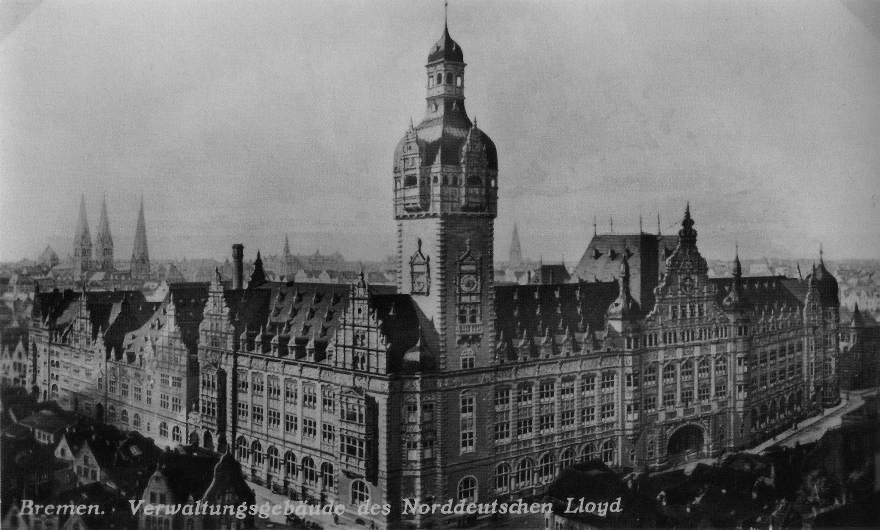 Postcard with a painting by Otto Bollhagen, showing the headquarter of the shipping company Norddeutscher Lloyd (North German Lloyd) in Bremen, Germany. Built from 1907 to 1910 in a eclectic architectural style mix by Johann Georg Poppe, the building was severly damaged in world war II and finally demolished in 1969.